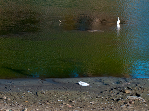 A Great Egret (Ardea alba), hunts the shallow in a drained Spreckels Lake, Golden Gate Park, San Francisco, CA, USA - August 2013